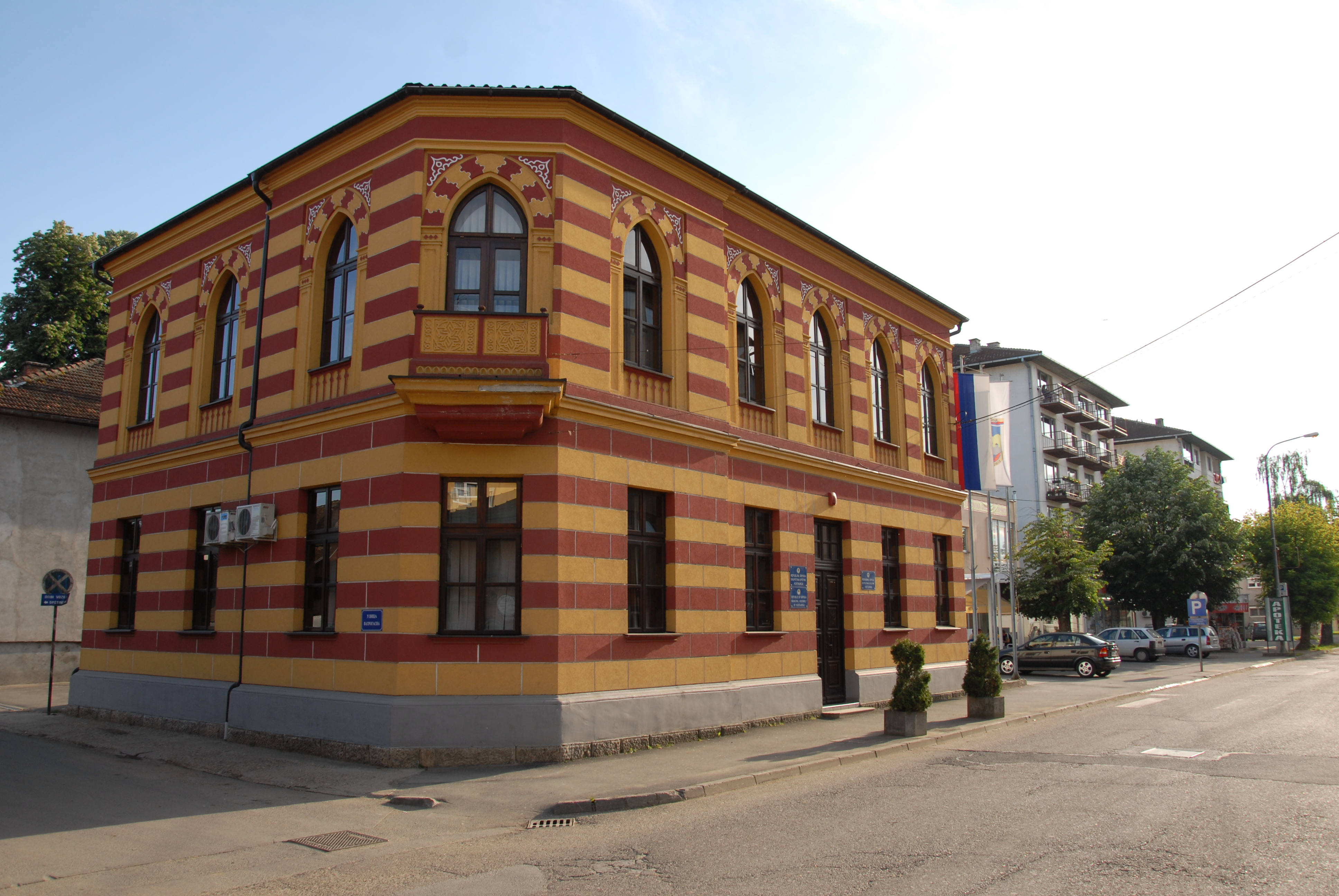 Main administrative building of the Kostajnica municipality.